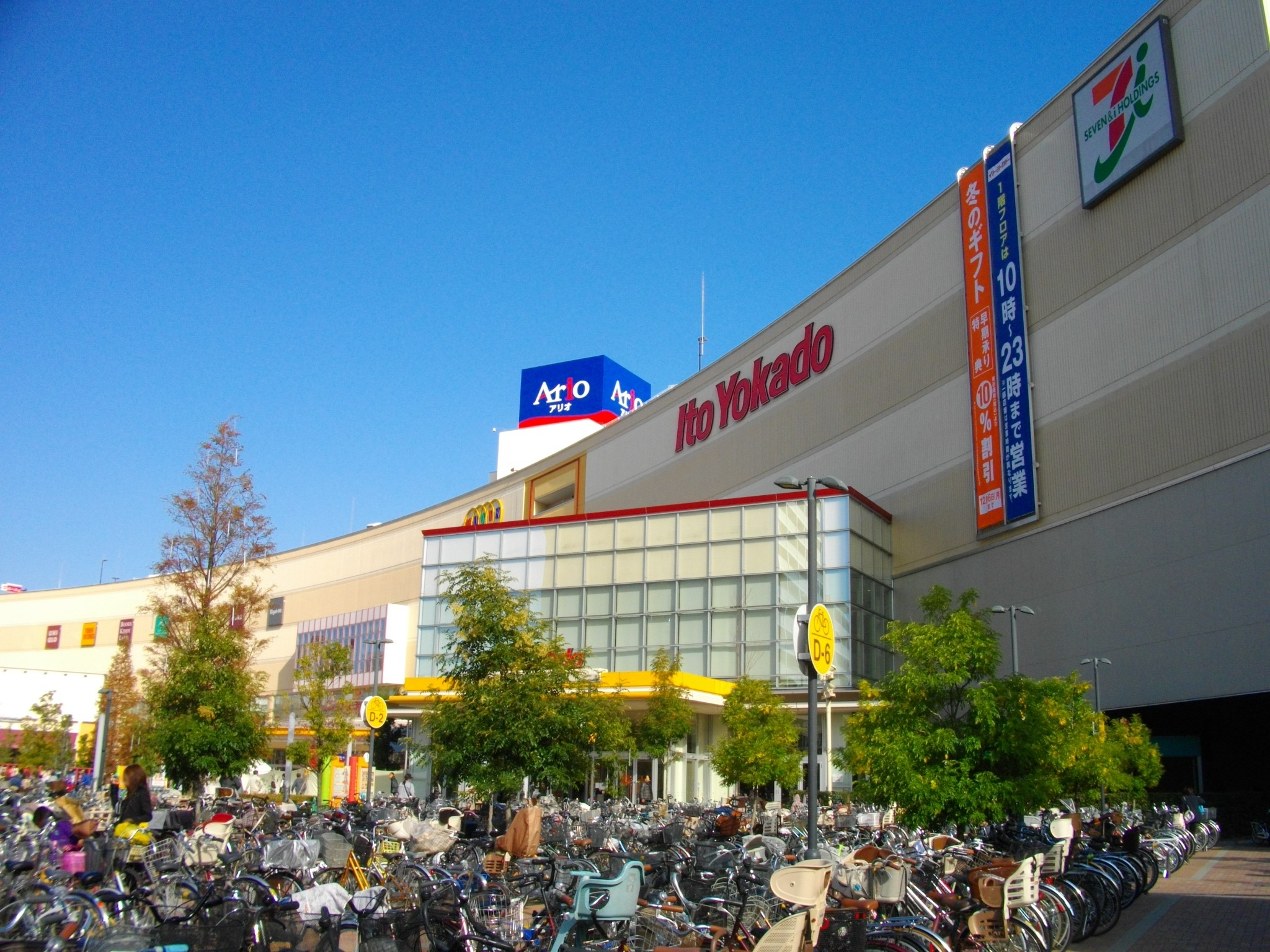 Ario Kameari